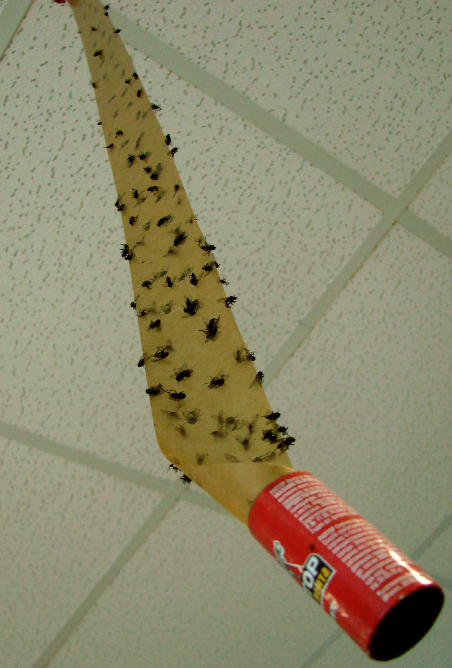 Fly capturing tape